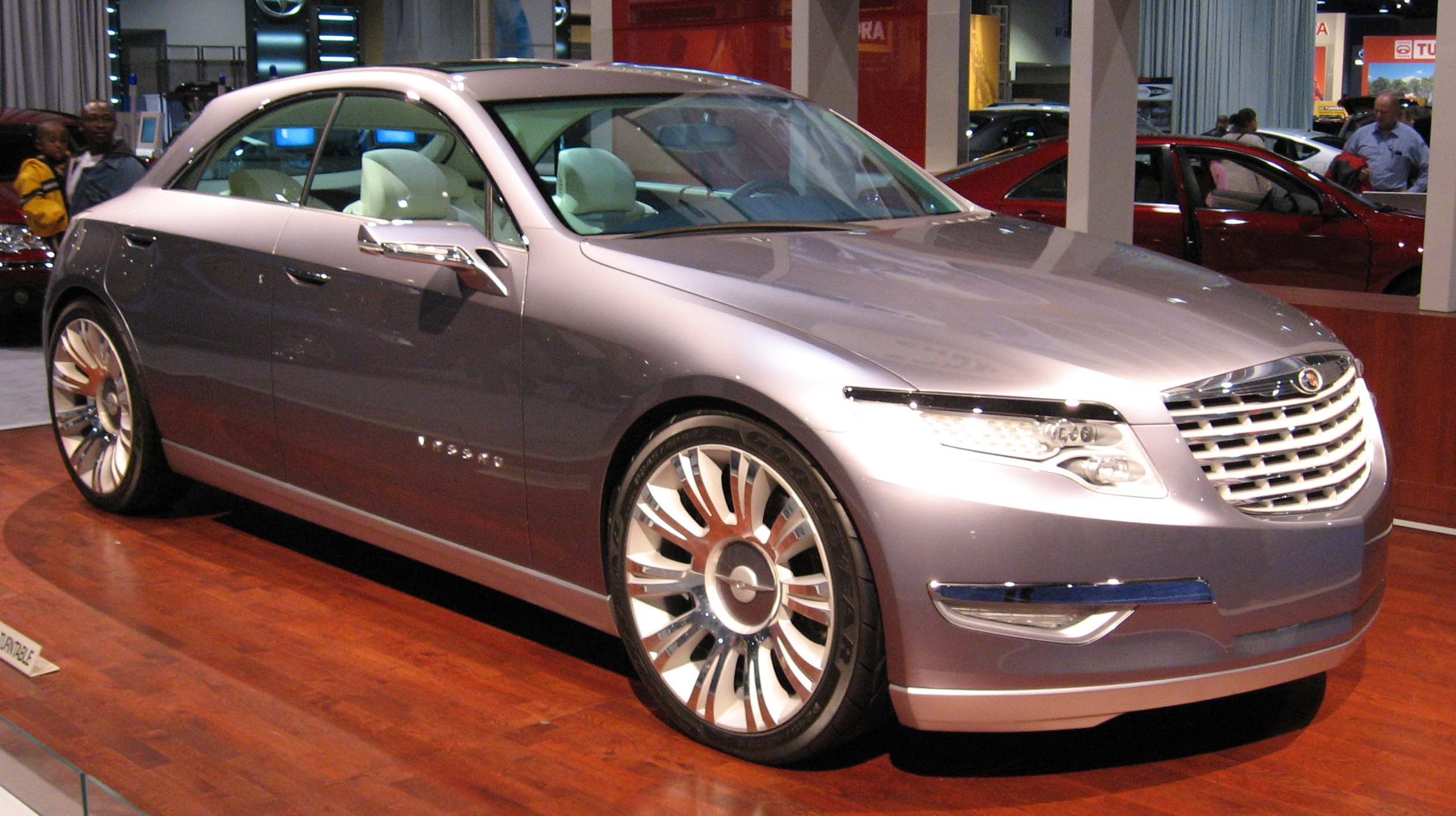 Chrysler Nassau photographed at the Washington Auto Show.